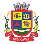 Coat of arms of the city of Dom Cavati, Minas Gerais, Brazil.